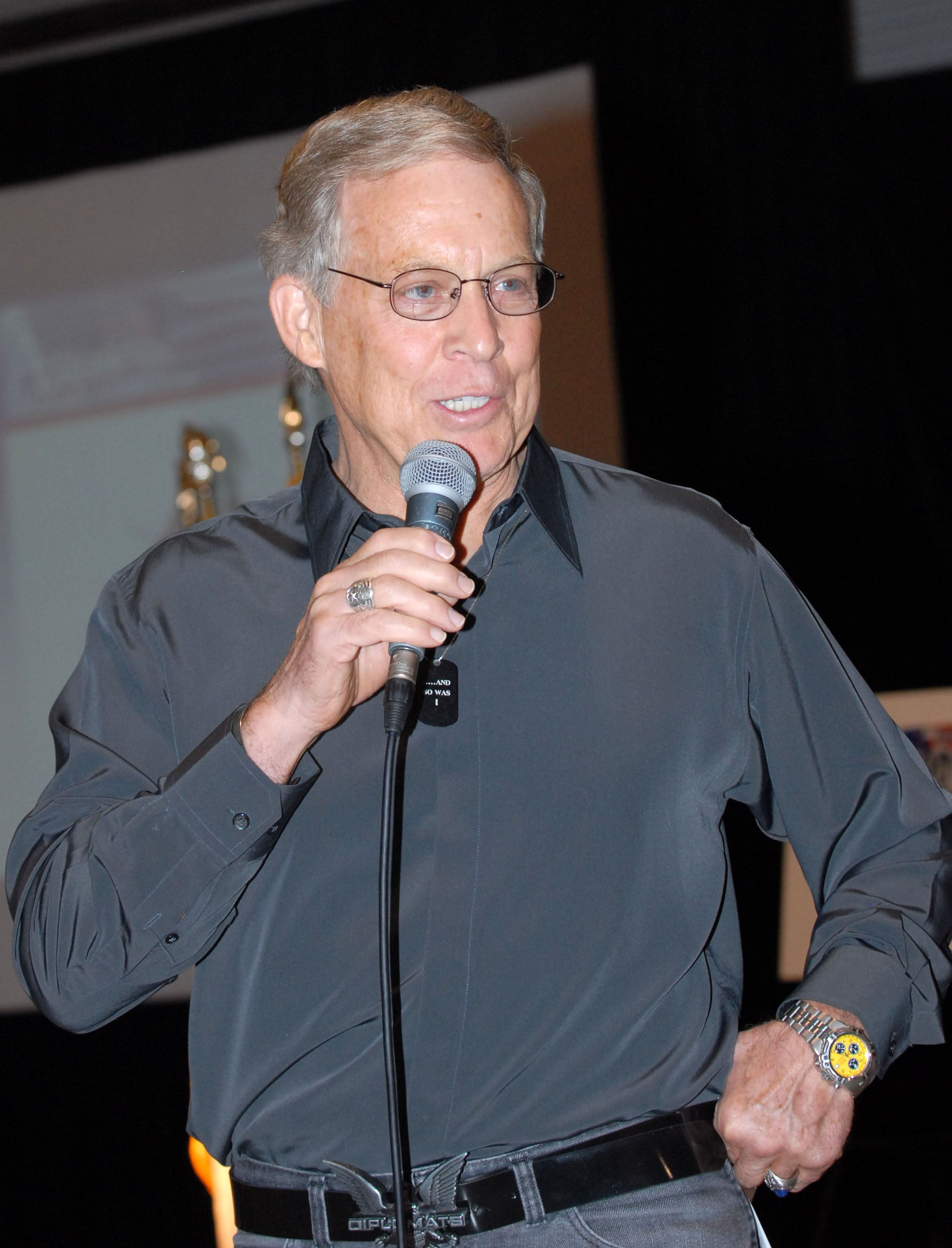 Retired Air Force Brig. Gen. Steve Ritchie, the last American fighter pilot to achieve "ace" status. Taken as he addresses the crowd gathered for American Military Family's "Hoedown for Heroes" event at the Larimer (Colo.) County Fairgrounds. The former fighter pilot is credited with five kills between May and August 1972.